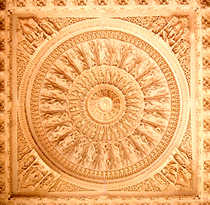 Banshi pahadpur Stone Caving. demo image, use for indidan temple.